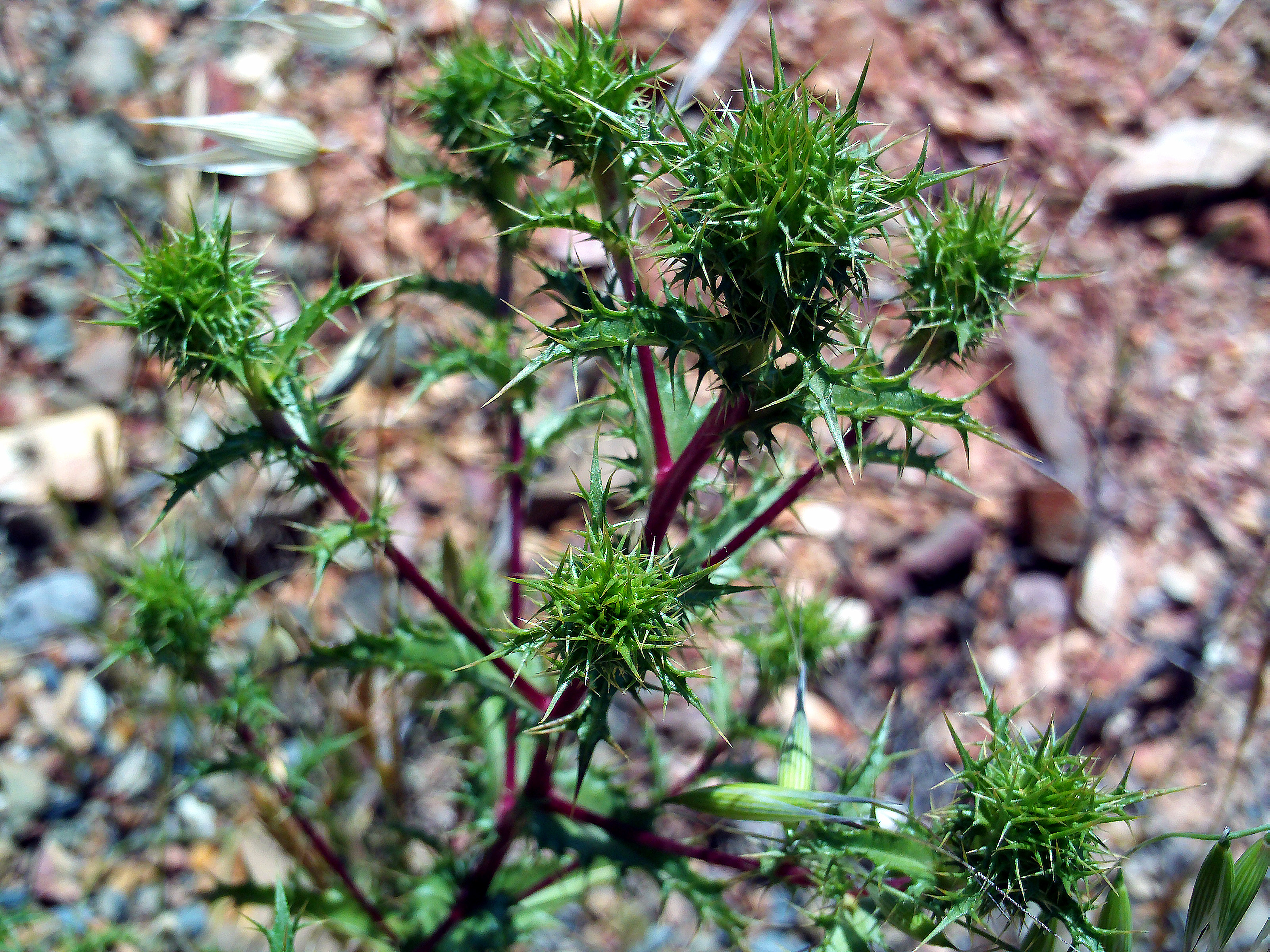 Carlina corymbosa plant, Sierra Madrona, Spain